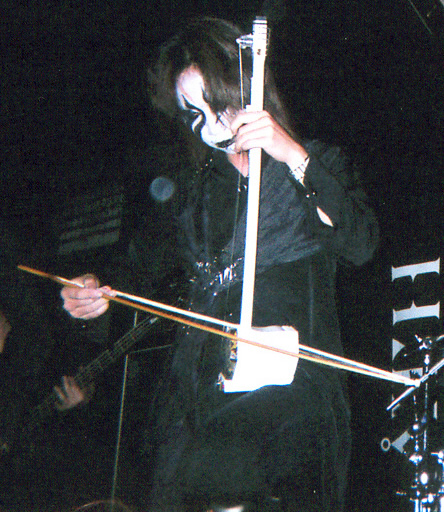 Description: Su-Nung performing with ChthoniC during their 2007 "UNLimited Taiwan" Tour. Source: My own personal photo, take in-concert Date: July 13th, 2007 Location: Studio Seven, Seattle, Washington, United Stated of America Author: Fugitivedread (user) Permission: Creator agreed to release this under the conditions of the CC-BY-SA 2.0.